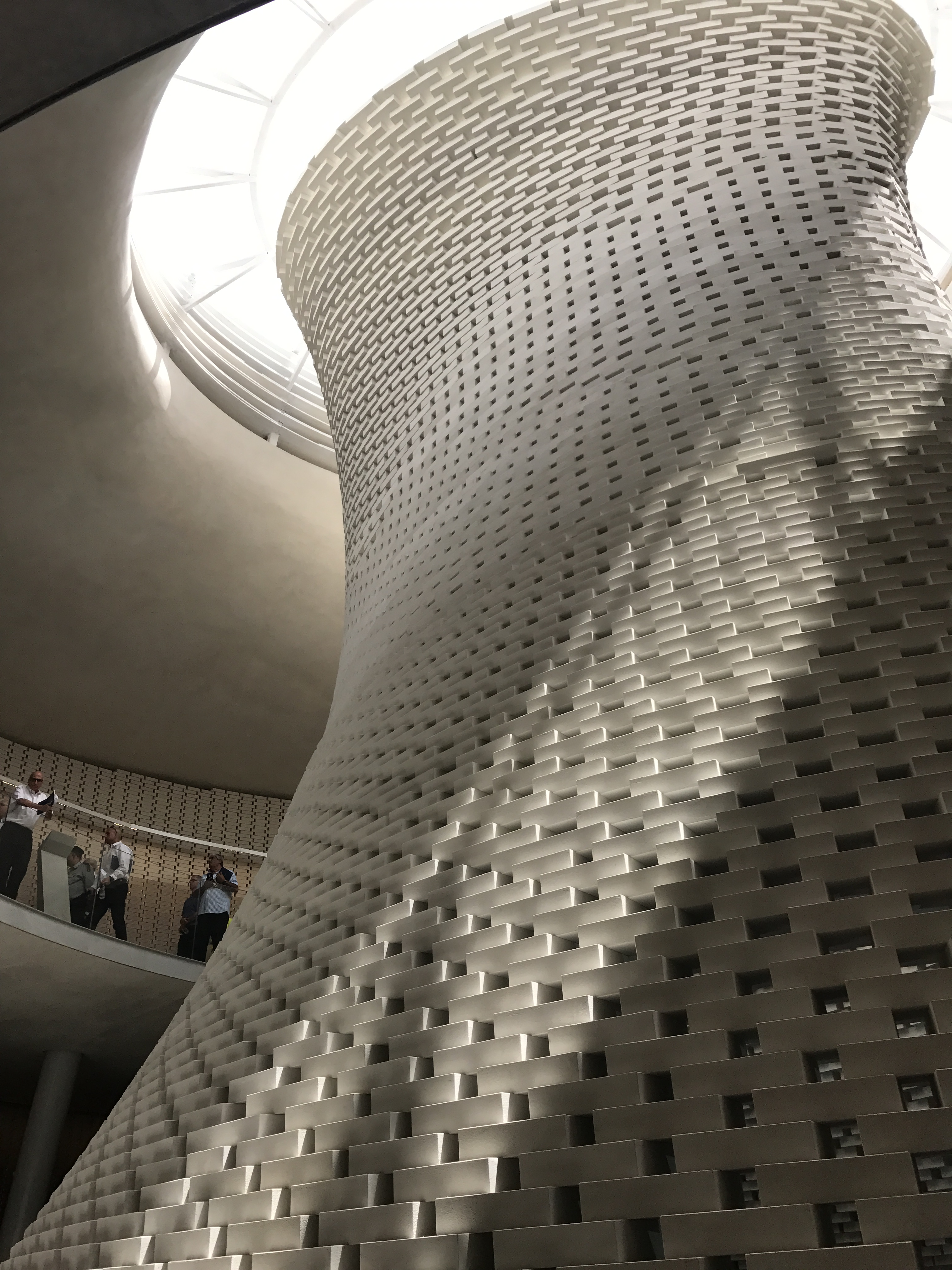 Inauguration of the Israeli national memorial hall, Apr. 30, 2017